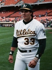 Jose Canseco at the Oakland Coliseum, 1989.